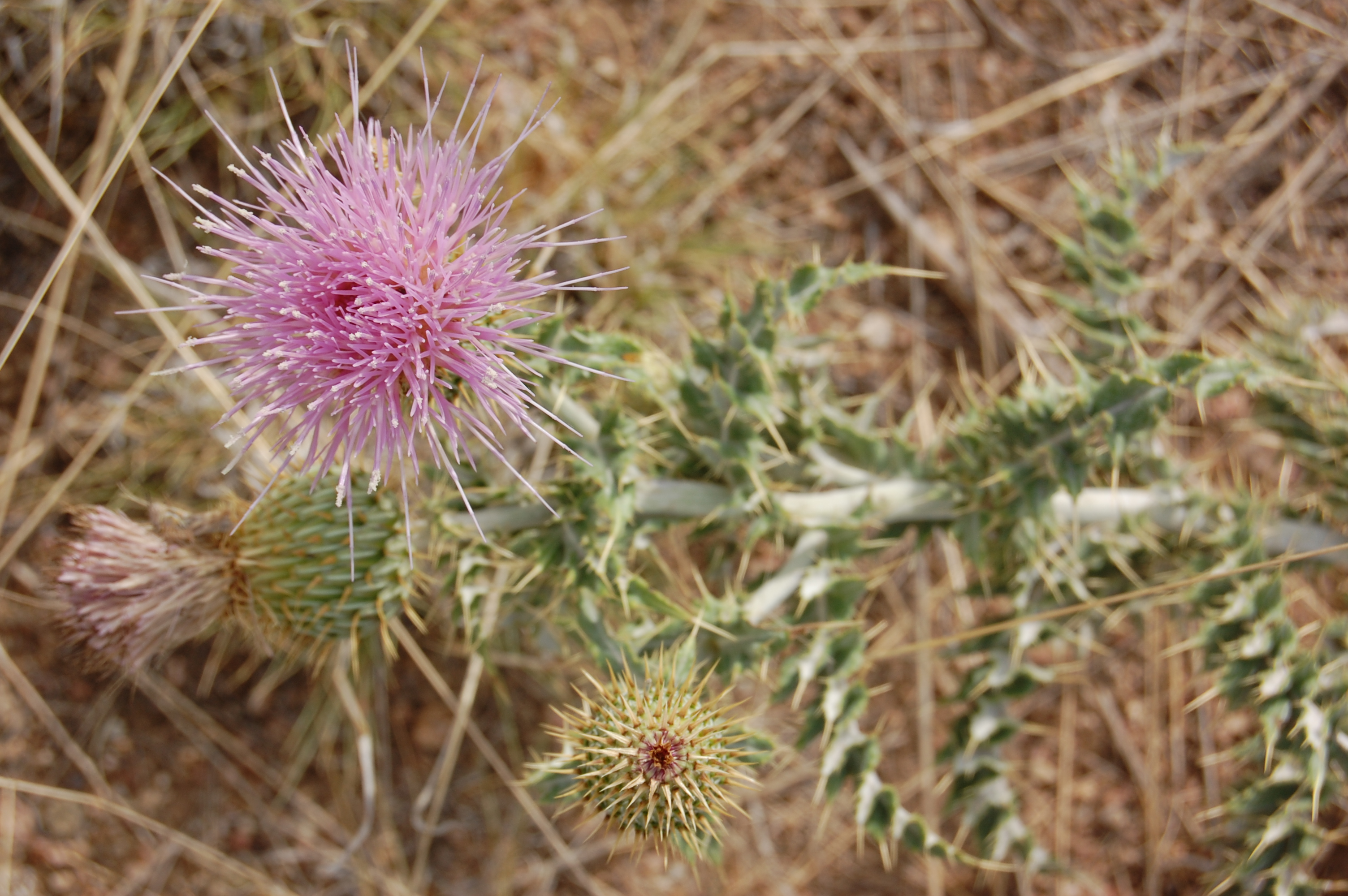 Cirsium neomexicanum — New Mexico Thistle. In the Elena Gallegos Picnic Area, in Albuquerque, New Mexico. Credits Picture taken in Elena Gallegos Picnic Area (see map), Albuquerque, New Mexico with 18-55 mm f/3.5-5.6GII ED AF-S DX Zoom-Nikkor Lens.